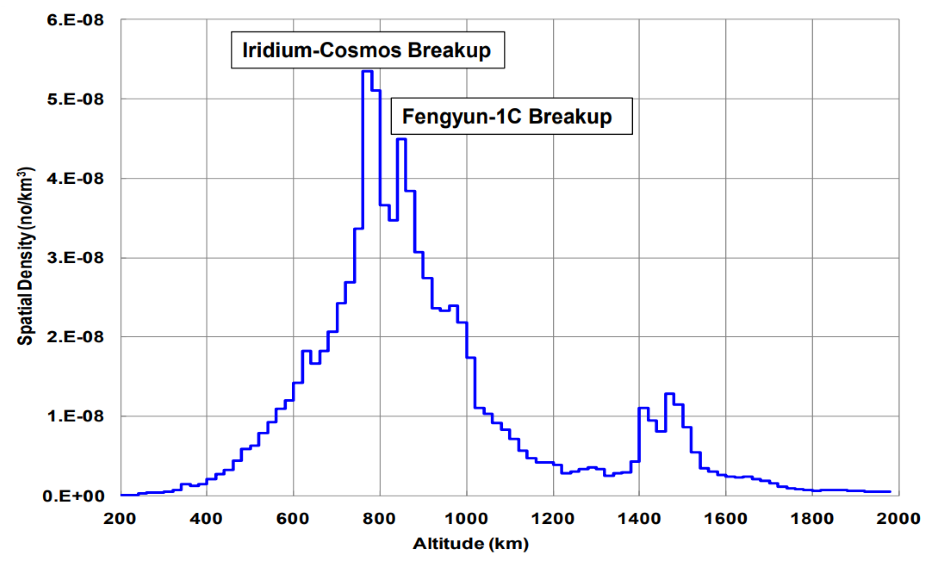 NASA 2011 Report to the United Nations Office for Outer Space Affairs, Scientific and Technical Subcommittee, Committee on the Peaceful Uses of Outer Space (UNOOSA), Fair Use: Released and published for the public by the United Nations